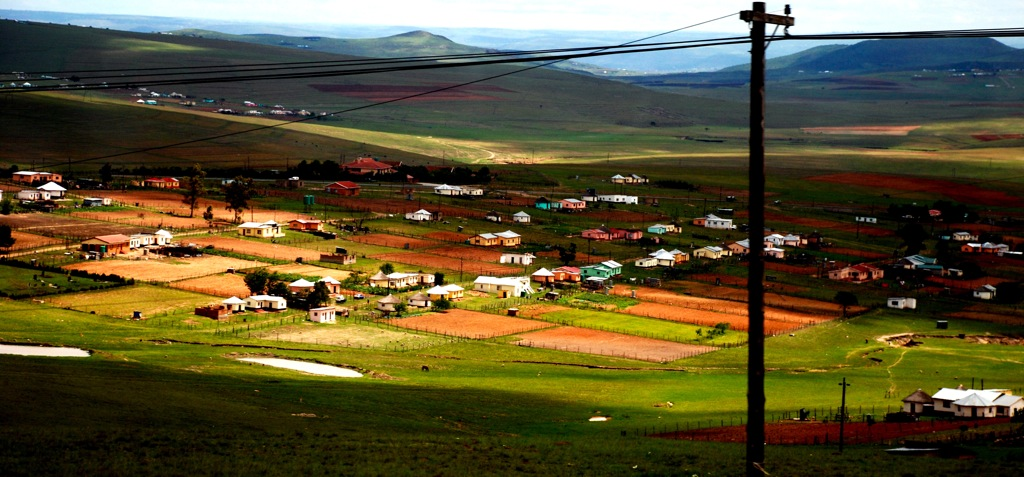 Qunu